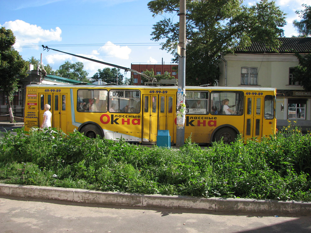 Trolleybus